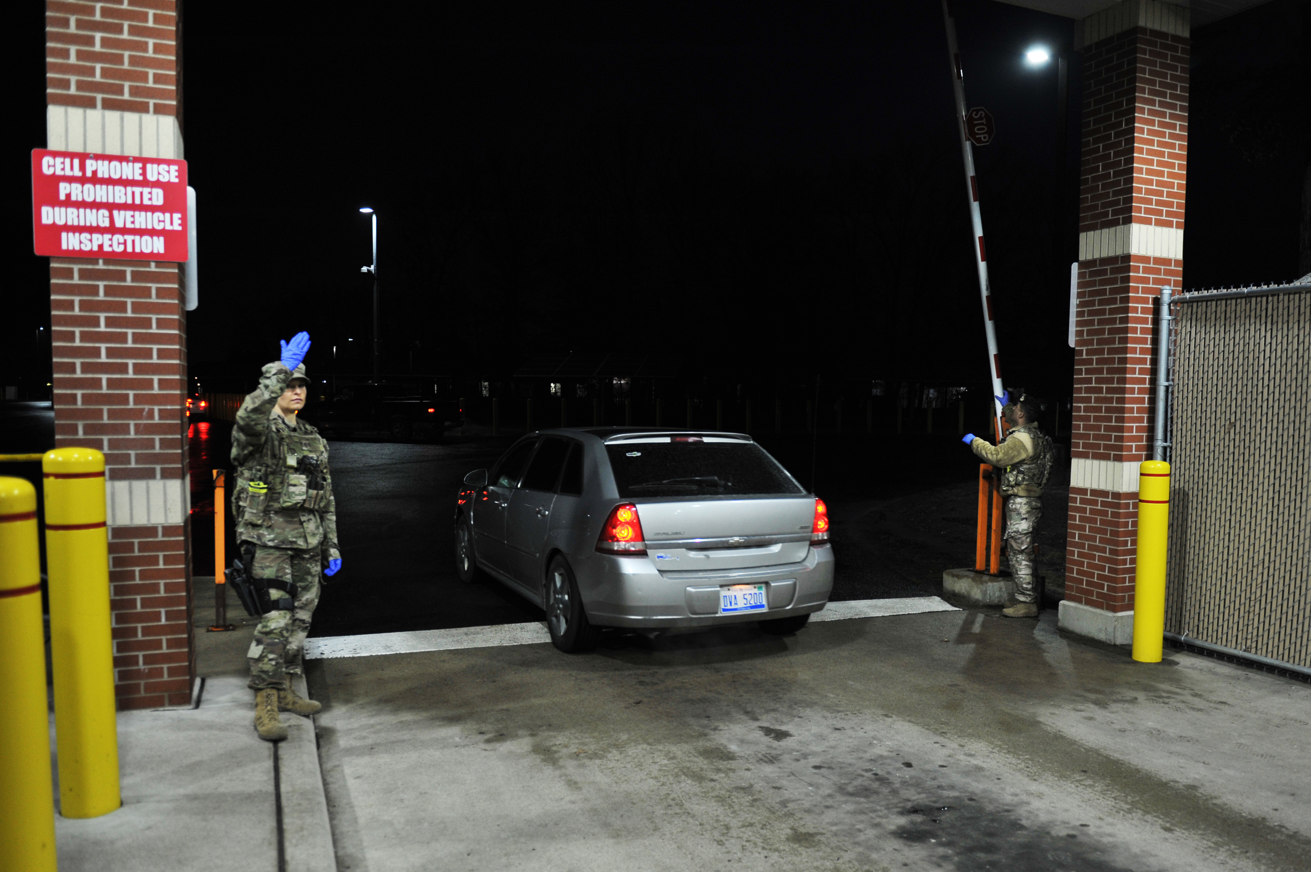 Master Sgt. Ariel McVicker, a security forces squadron augmentee and Staff Sgt. Xavier Graciani, a security forces specialist, both assigned to the Ohio National Guard’s 180th Fighter Wing, wears protective gloves while motioning vehicles, arriving at the installation, through the main gate, March 17, 2020. The 180FW implemented local Force Health Protection measures in an effort to safeguard military and civilian personnel and to help prevent wide-spread of COVID-19 in Northwest, Ohio. (Air National Guard photo by Senior Master Sgt. Beth Holliker)